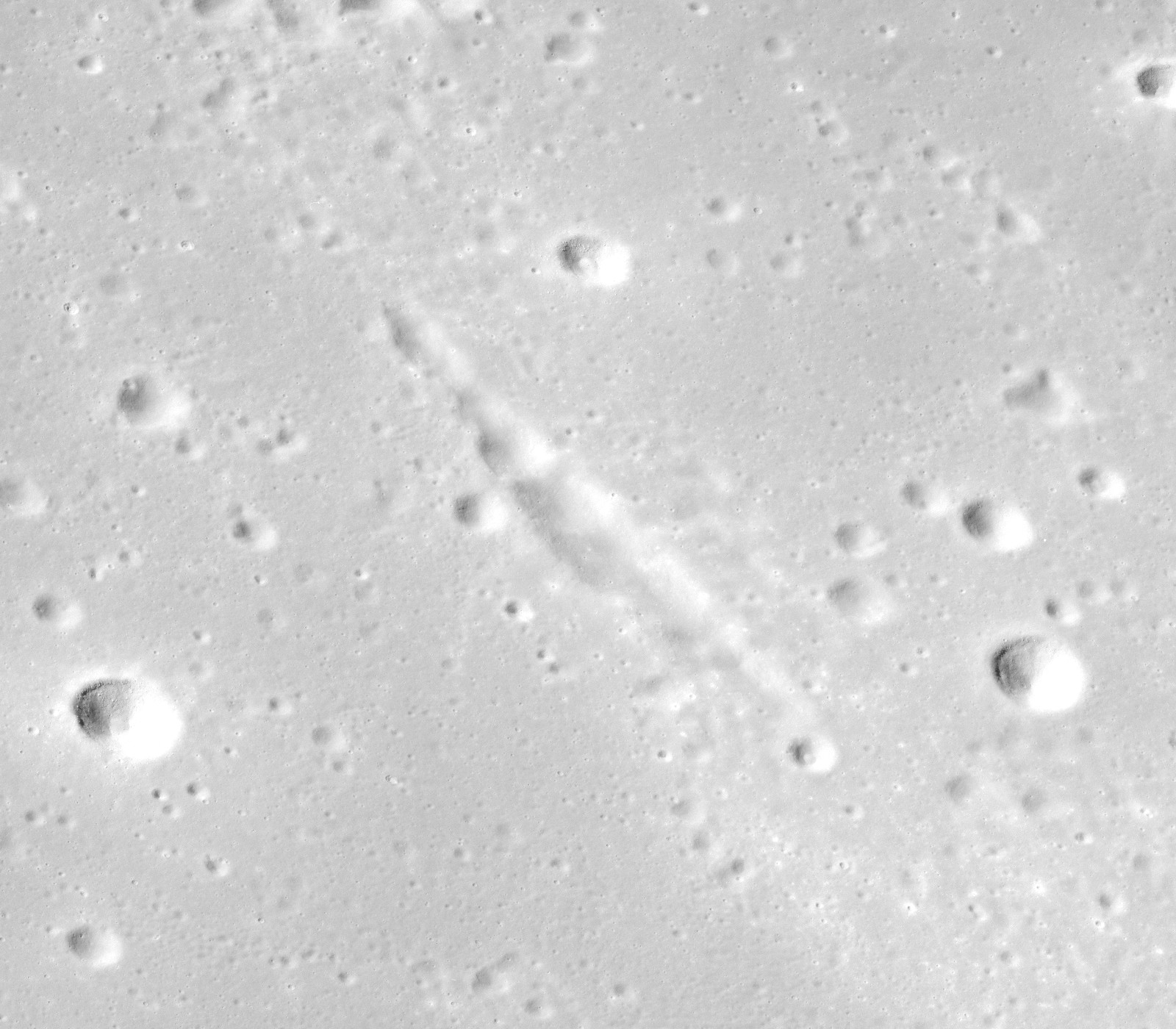 Oblique view of Catena Yuri, facing south, on the moon. Taken by Apollo 15 panoramic camera.